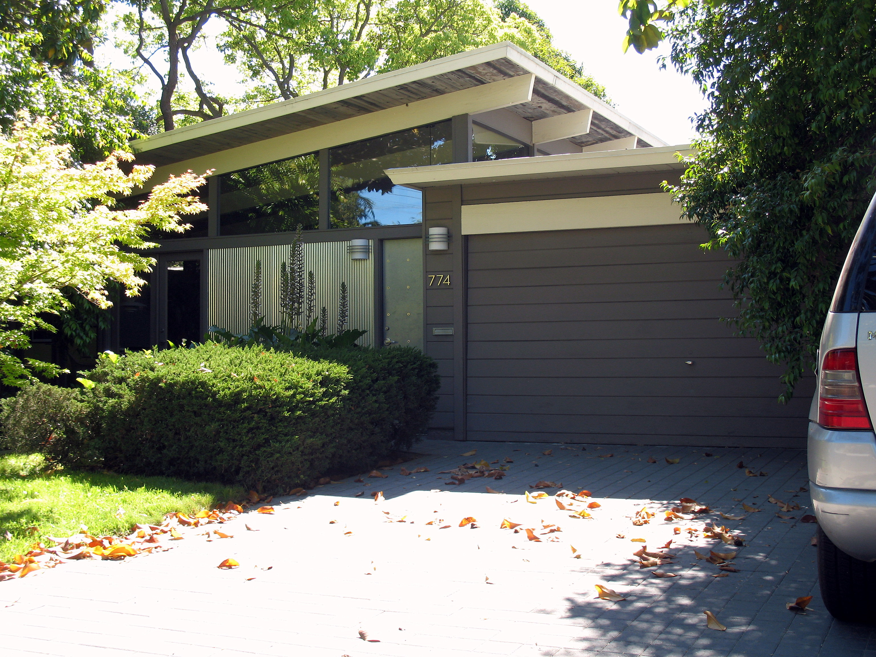 774 Wildwood Lane, Palo Alto, CA (a Joseph Eichler home)